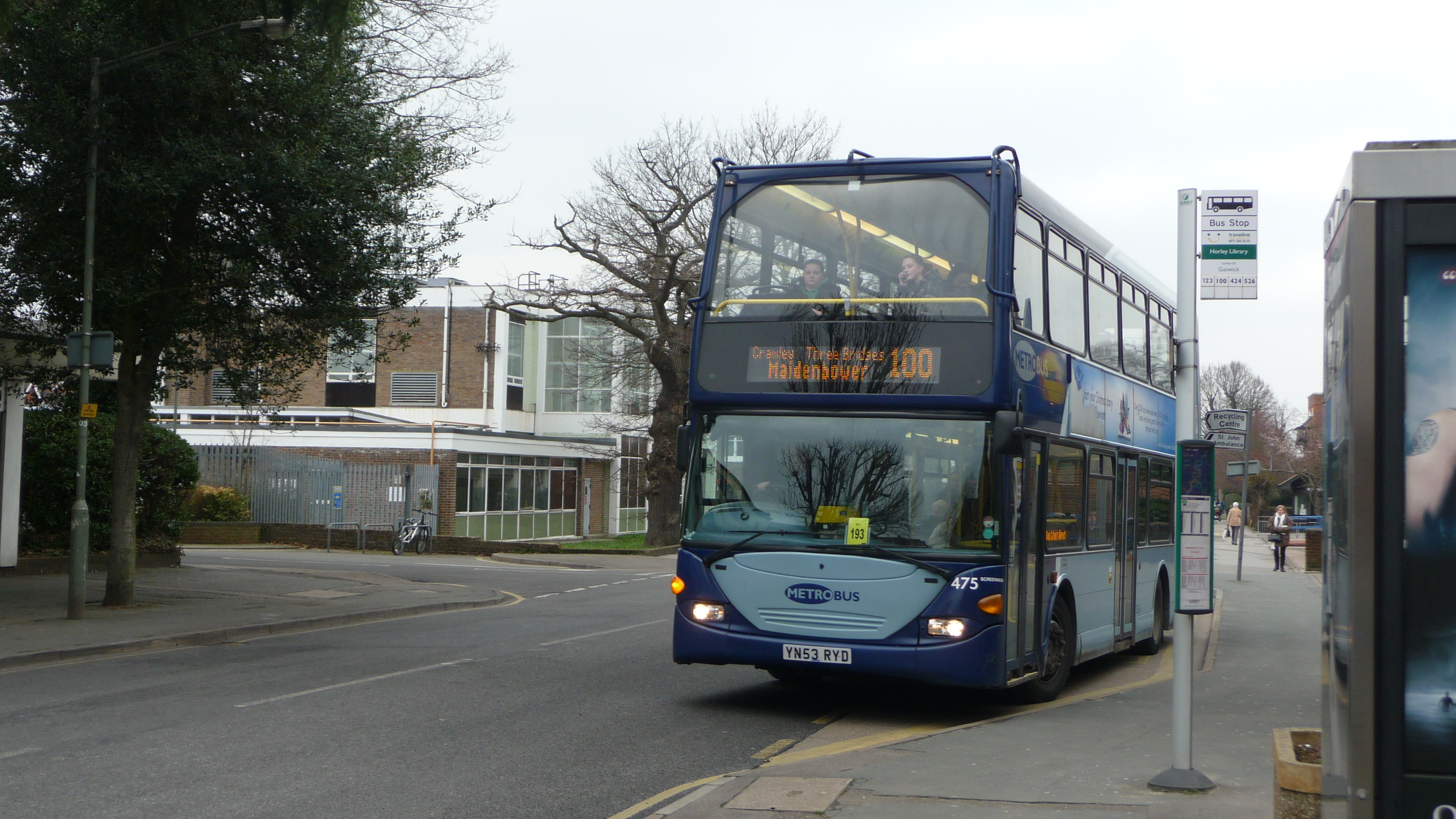 Metrobus 475 (YN53 RYD), a Scania OmniDekka, in Victoria Road, Horley, Surrey, on Fastway route 100. Being a Fastway route, service 100 is supposed to be run with dedicated Fastway Scania OmniCity single-deckers. When not enough are available, then standard single-deckers have to substitute. However, the use of a double-decker on the route as seen here is most unusual.